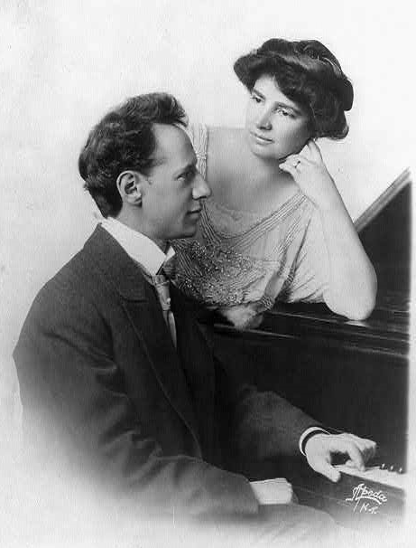 Russian-born American composer, pianist, and conductor Ossip Gabrilowitsch (1878-1936) with his wife Clara Clemens (1874-1962), daughter of Samuel Clemens (Mark Twain).